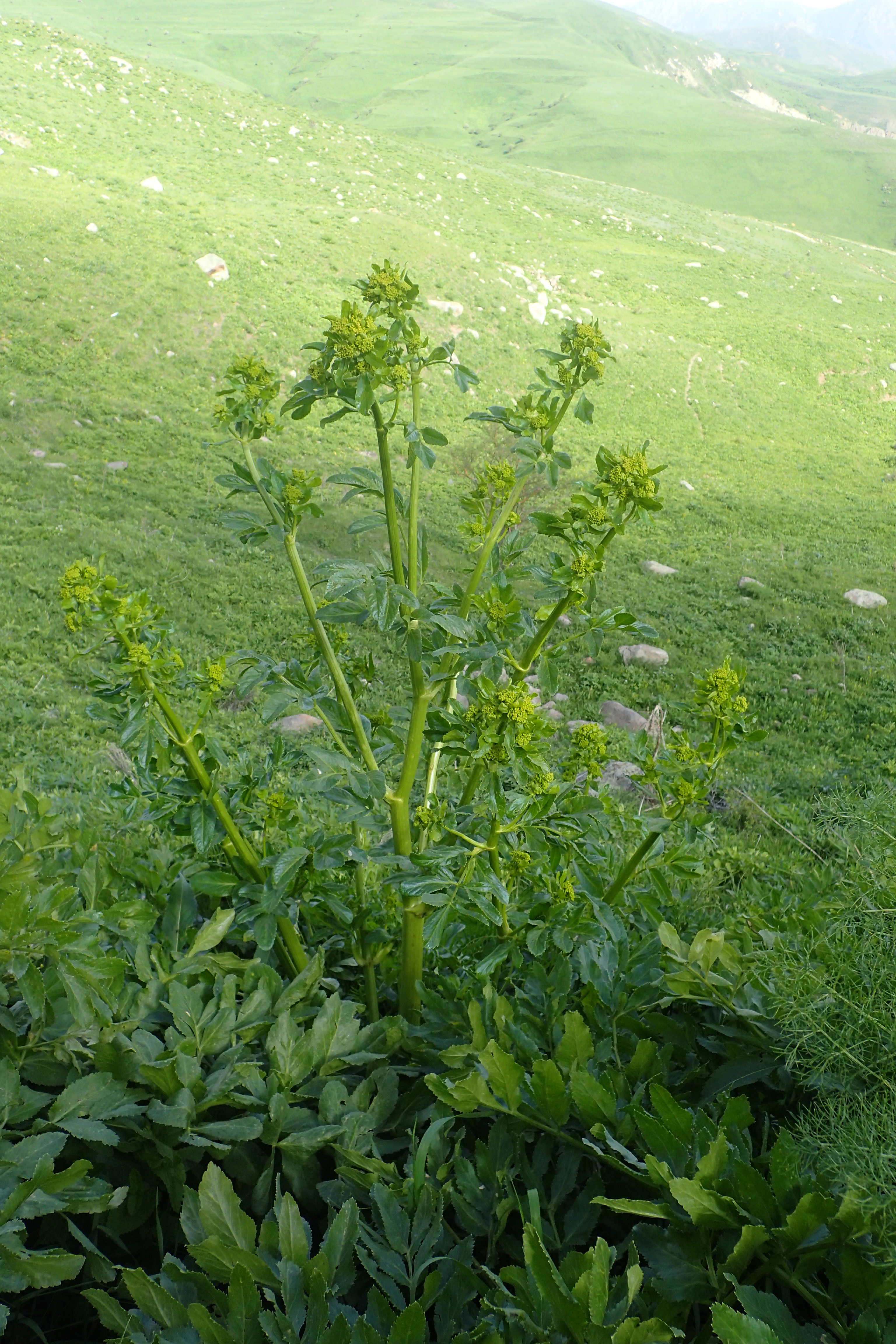 Smyrniopsis aucheri at Vardenyats Pass in Armenia